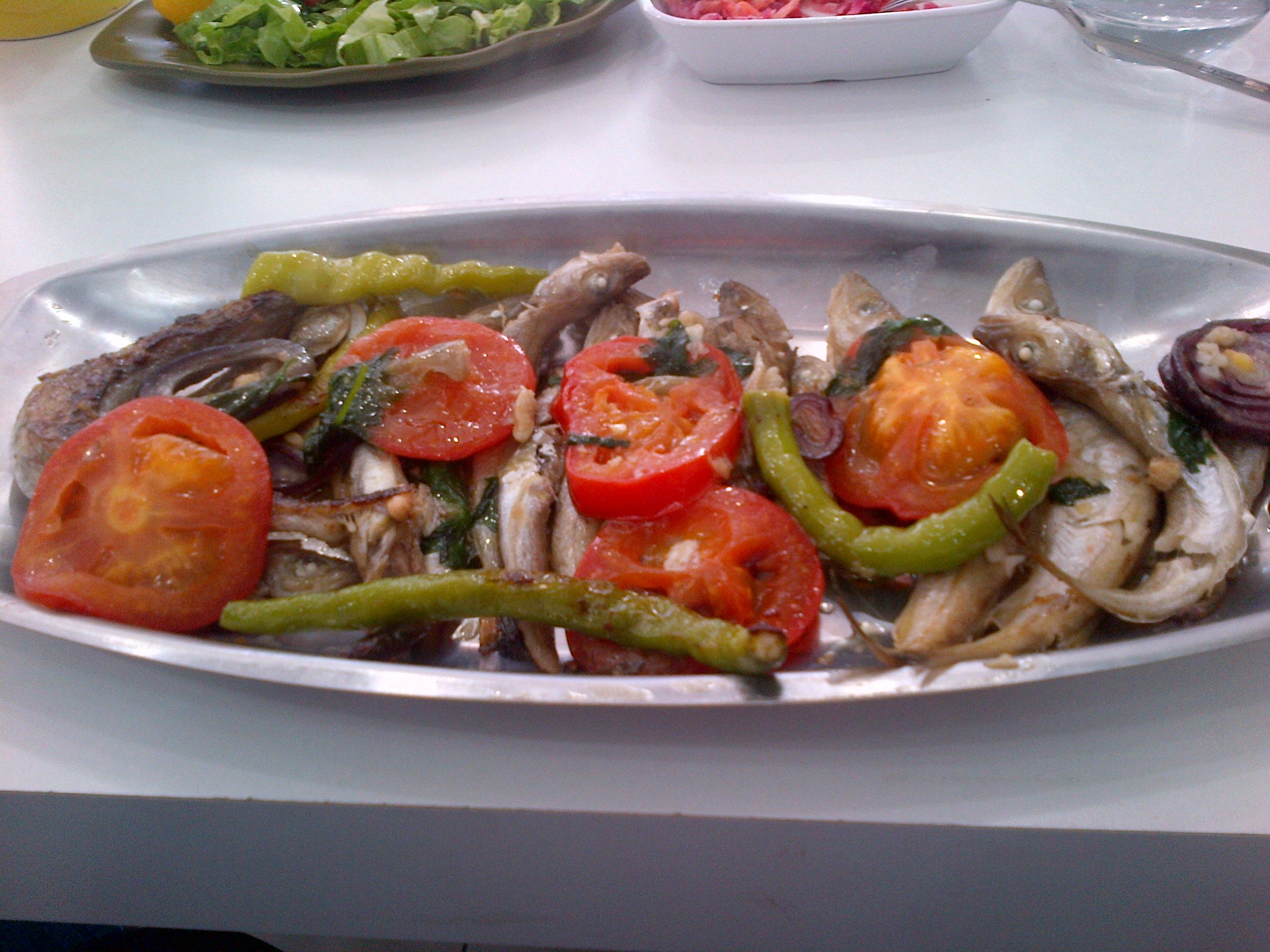 "Mezgit çıtlatması", a "Mezgit" (haddock) dish from Giresun, in the Black Sea Region of Turkey.